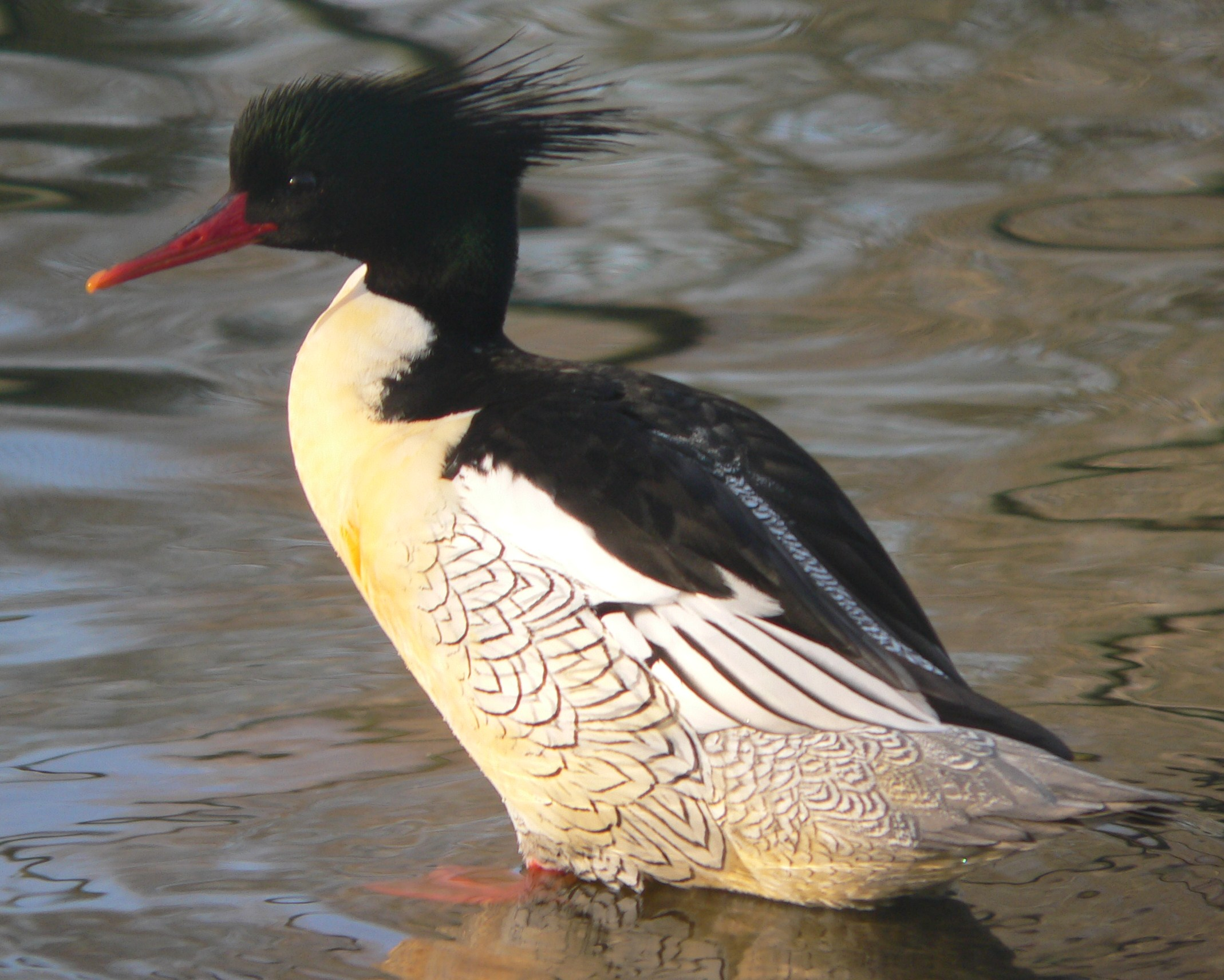 Scaly-sided Merganser, male